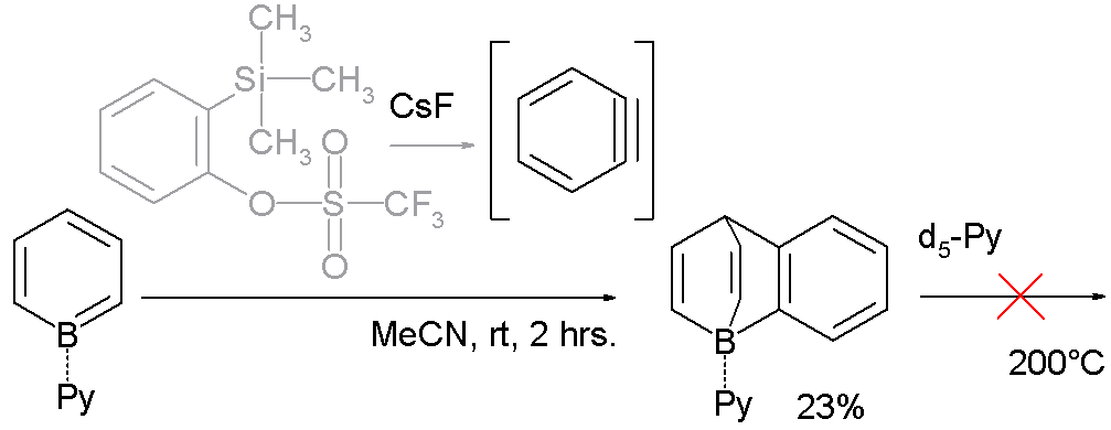 Benzoborabarrelene Synthesis